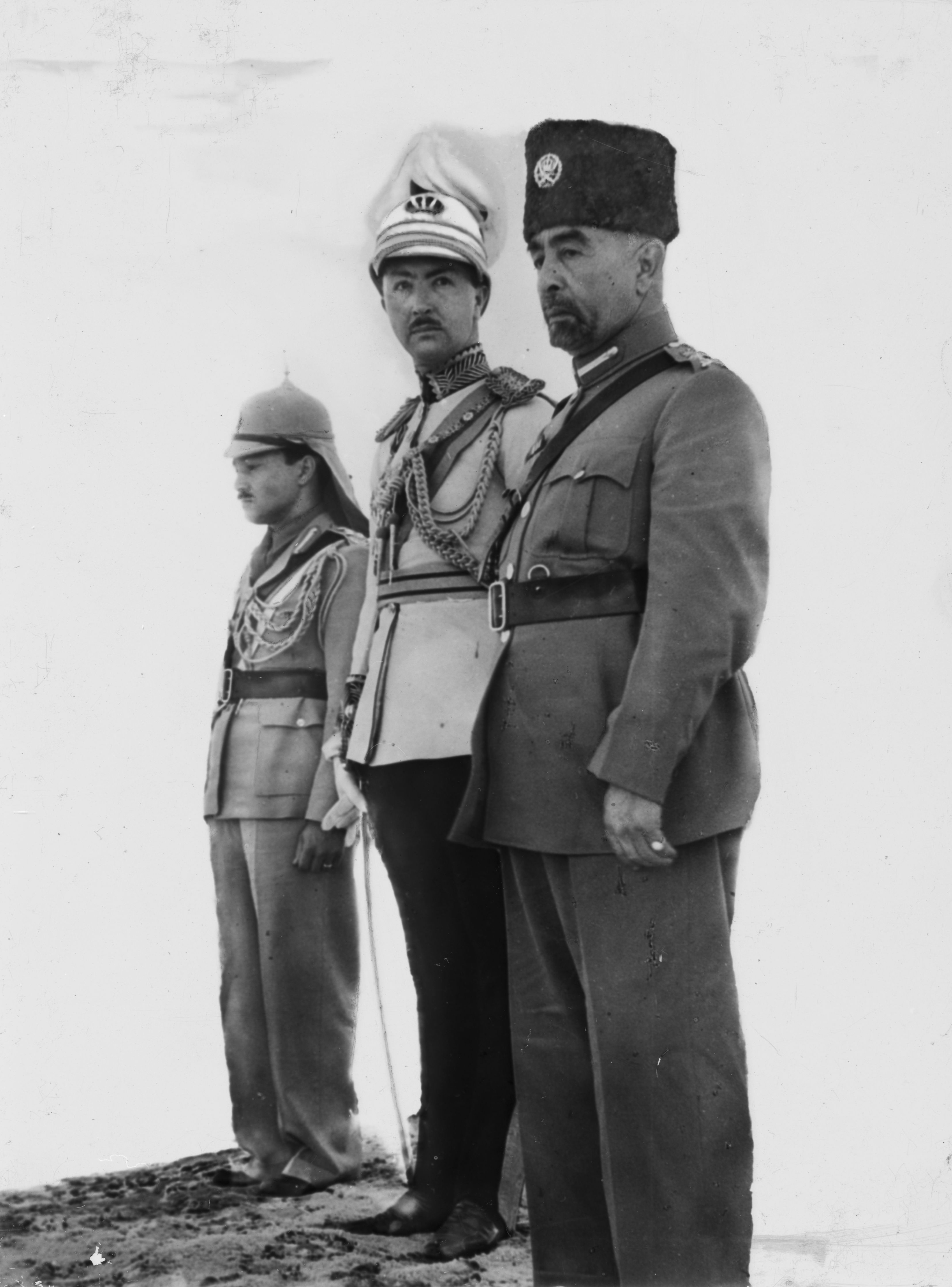 'Coronation' of King Abdullah in Amman. (right to left) King Abdullah, Emir Abdul Illah (Regent of Iraq), and Emir Naif (King Abdullah's youngest son